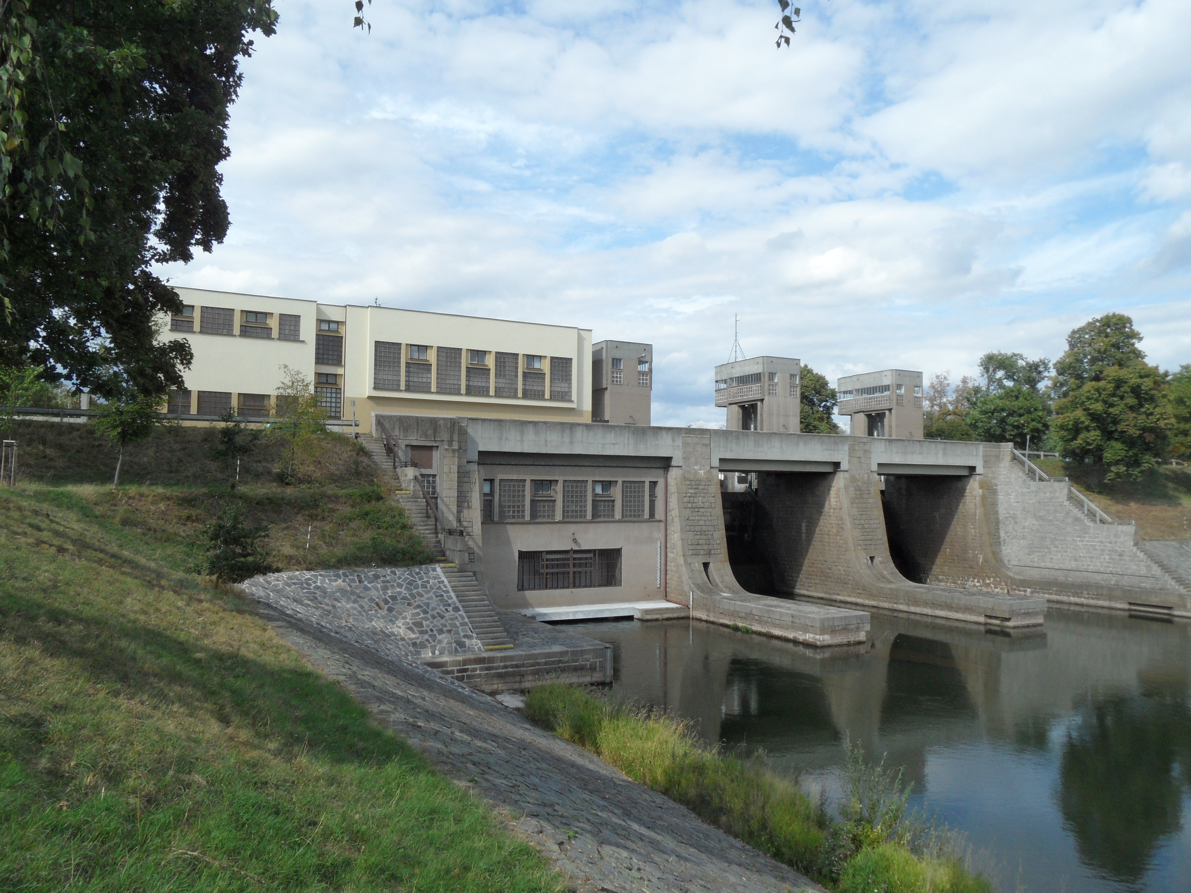 Weir Předměřice B. Lower Part, Overview. Hradec Králové District, the Czech Republic.